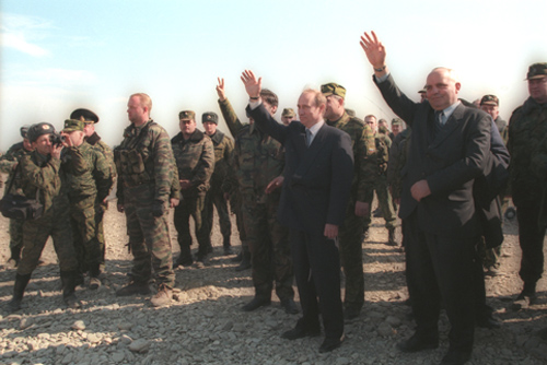 KHANKALA. A farewell ceremony for the 331st Airborne Regiment of the 98th Airborne Division withdrawn from Chechnya.